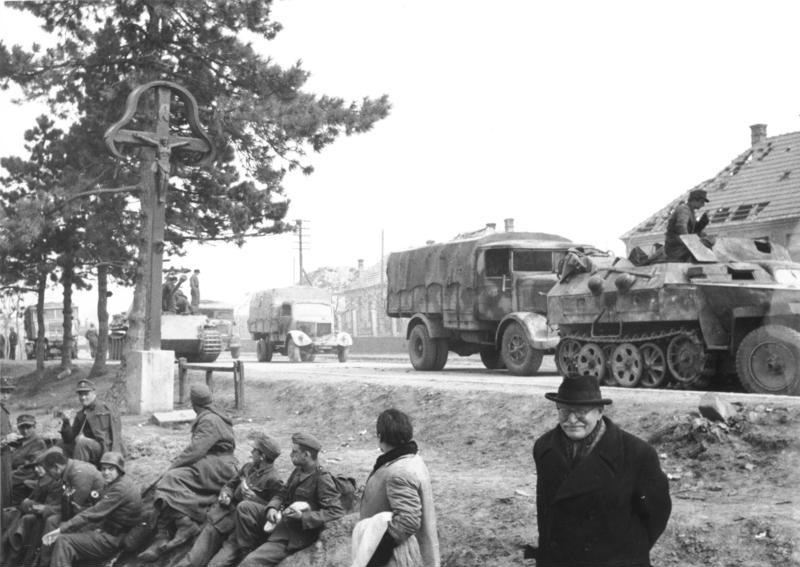 From the right: SdKfz-250 APC, Lancia 3RO truck, late Mercedes L3000S, PzKpfw-V Panther tank